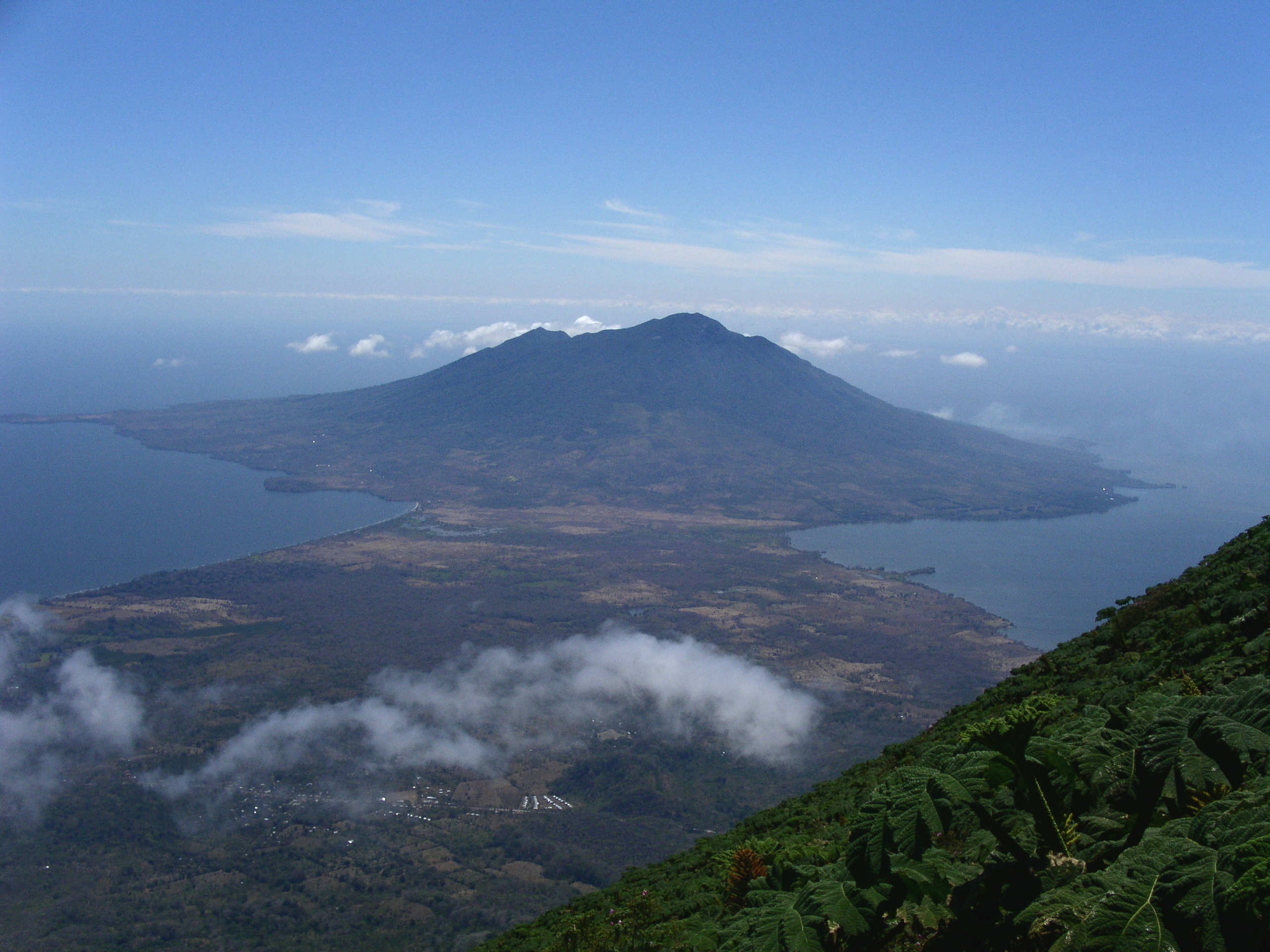 Mt. Maderas in Nicaragua